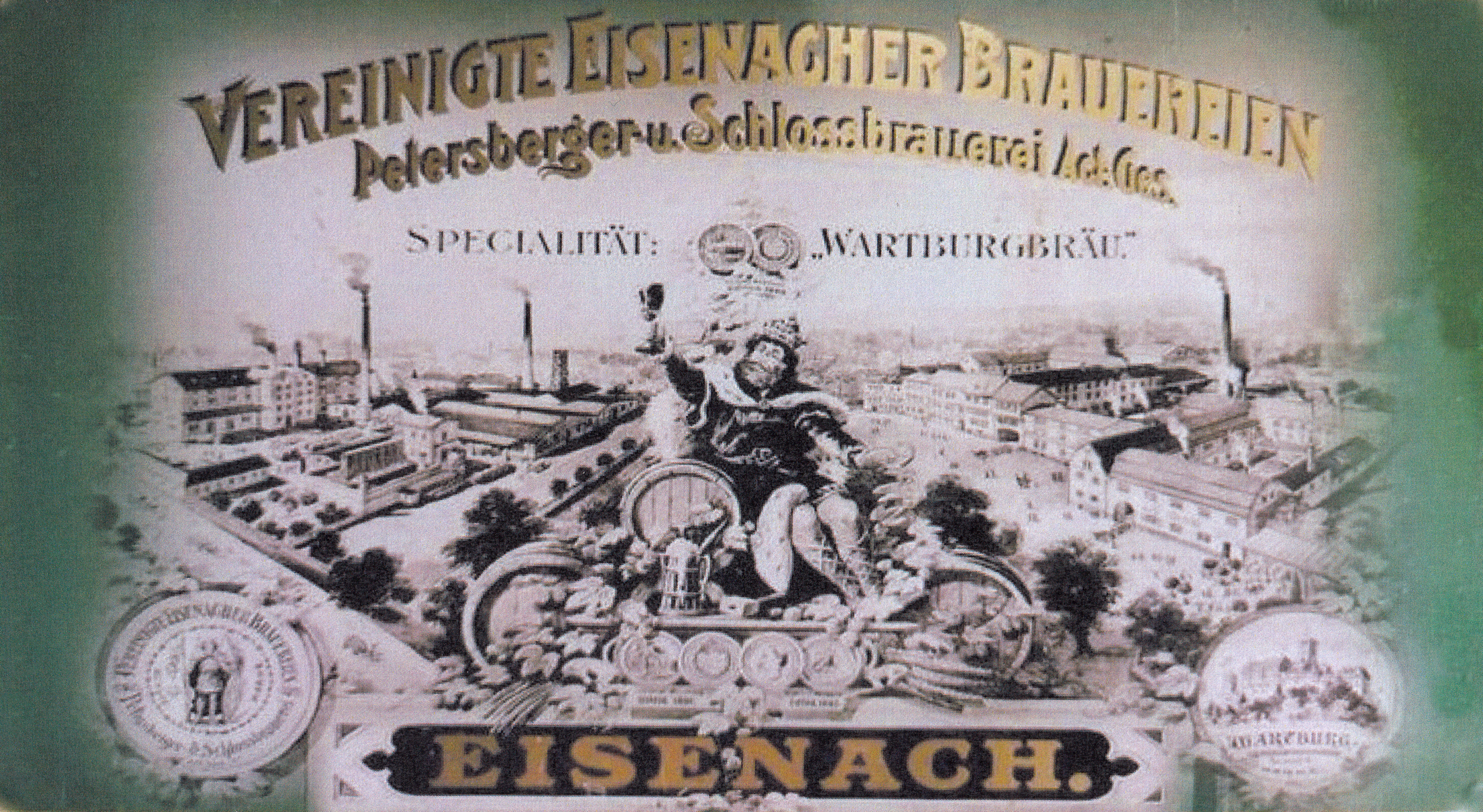 Advertisement of the "Vereinigte Eisenacher Brauereien", Petersberger & Schloßbrauerei Eisenach